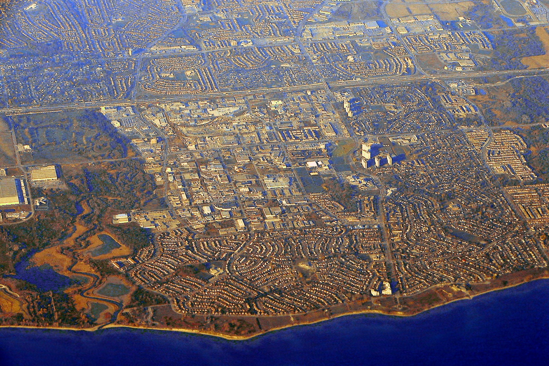 Aerial view of Ajax, Ontario, Canada